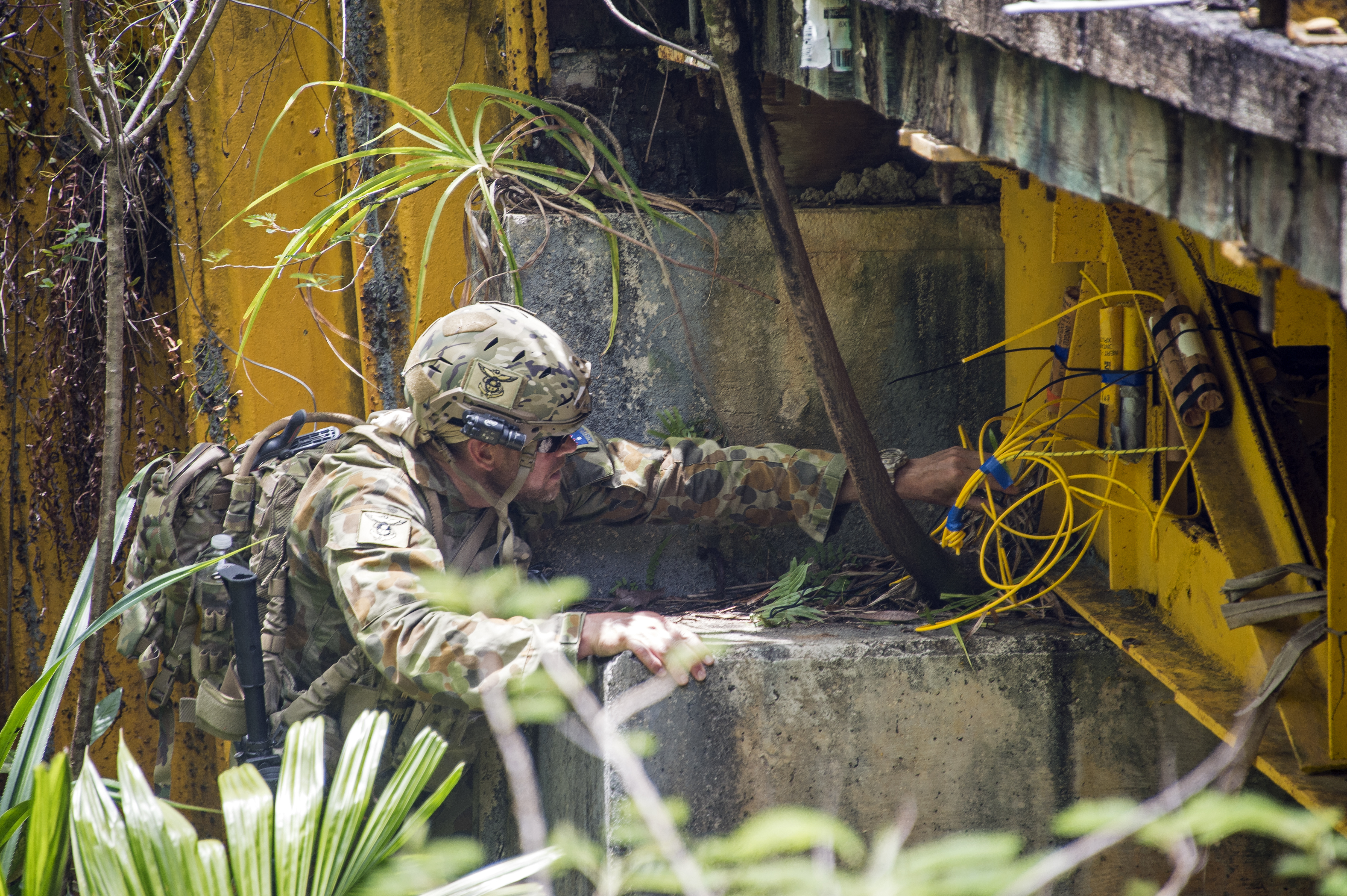 An Explosive Ordnance Disposal (EOD) technician, assigned to the Royal Australian Navy Clearance Diving Team, inspects an Improvised Explosive Device (IED) during an IED response scenario as part of Exercise Tricrab on Naval Magazine Guam, May 16, 2016. Tricrab is a combined exercise involving military forces from five different countries that focuses on strengthening relationships within the Asia-Pacific region through training and information exchanges, to enhance EOD and diving related interoperability. (U.S. Navy Combat Camera photo by Mass Communication Specialist 3rd Class Alfred A. Coffield/Released)